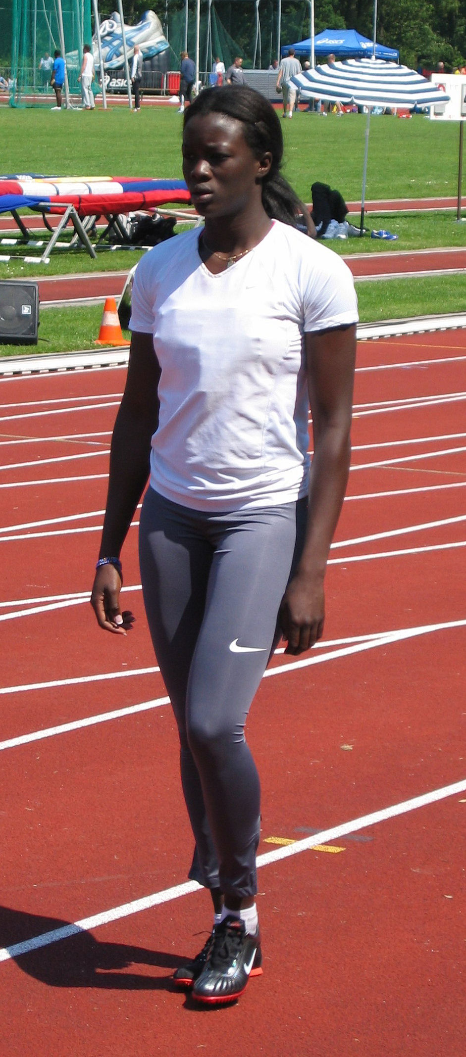 Anne Zagre at the Gouden Spike Meeting '09 in Leiden, The Netherlands